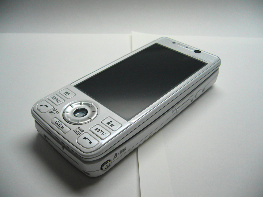 NTT docomo's Mobile Phone "FOMA P-02A"